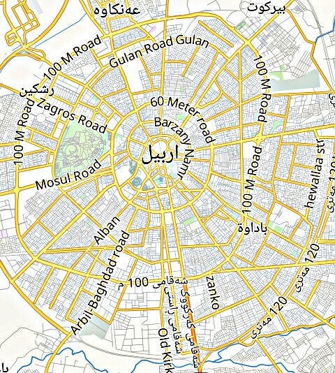 Arbil City Map